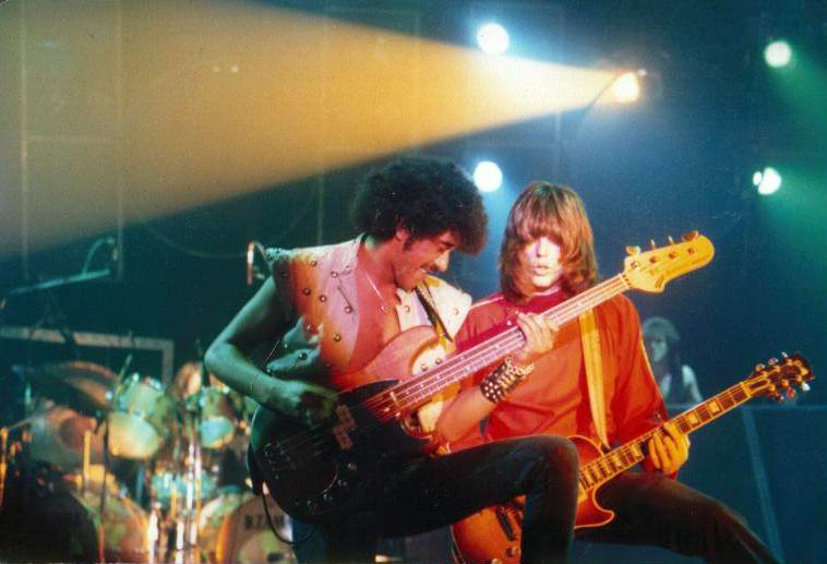 Thin Lizzy Sophia Gardens Cardiff 1981; Last time they played Sophia Gardens. This was the rescheduled date after Phil got jumped by some neo-nazis in Southampton. Last date of the tour too with the usual shennanegins. Played for over 2 1/2 hours and I missed the train home.